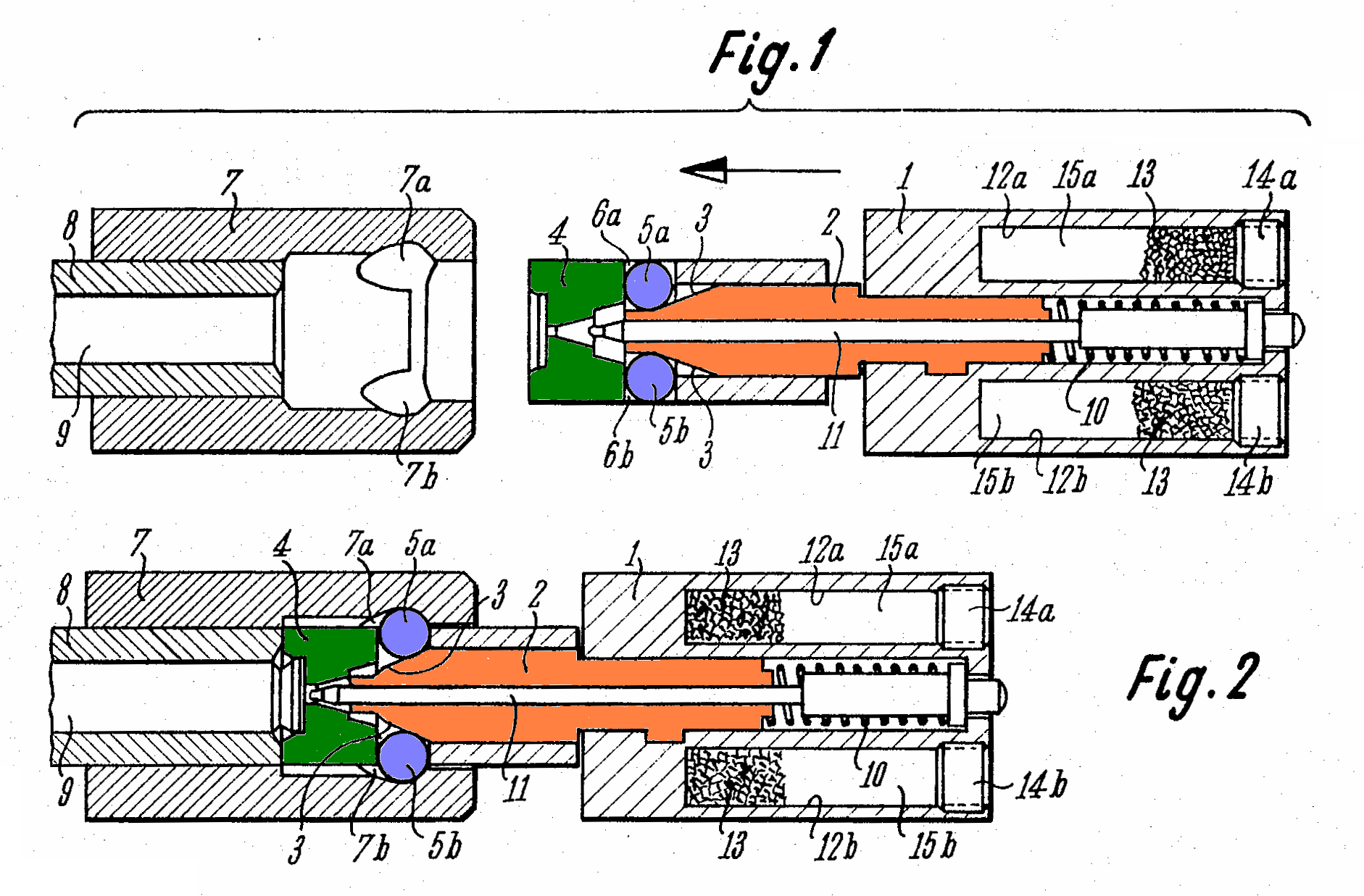 A schematic of the MP5 roller delayed blowback unit.